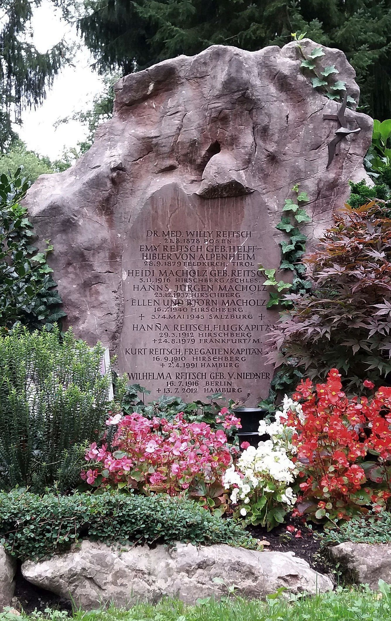 Grave of the German aviatrix and test pilot Hanna Reitsch (1912–1979). Grave location: Salzburger Kommunalfriedhof, Gruppe 60, Reihe 20, Ordnung 3, Grabnummer 013-014.